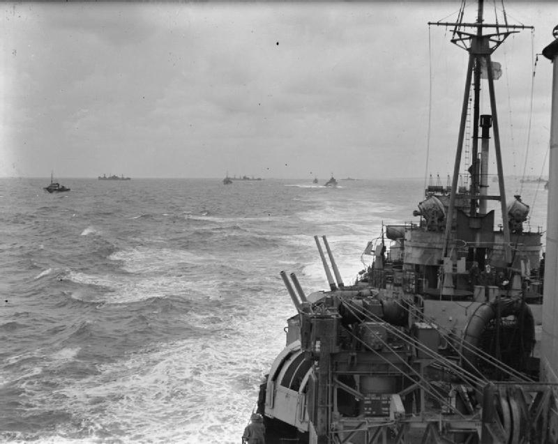 IWM caption : British light cruiser HMS MAURITIUS ready for action with other Allied shipping off the beachhead at Anzio. Note the twin 4 inch guns at full elevation on the starboard side of the cruiser. Comment : This was in support of Operation Shingle, commonly known as the Battle of Anzio.